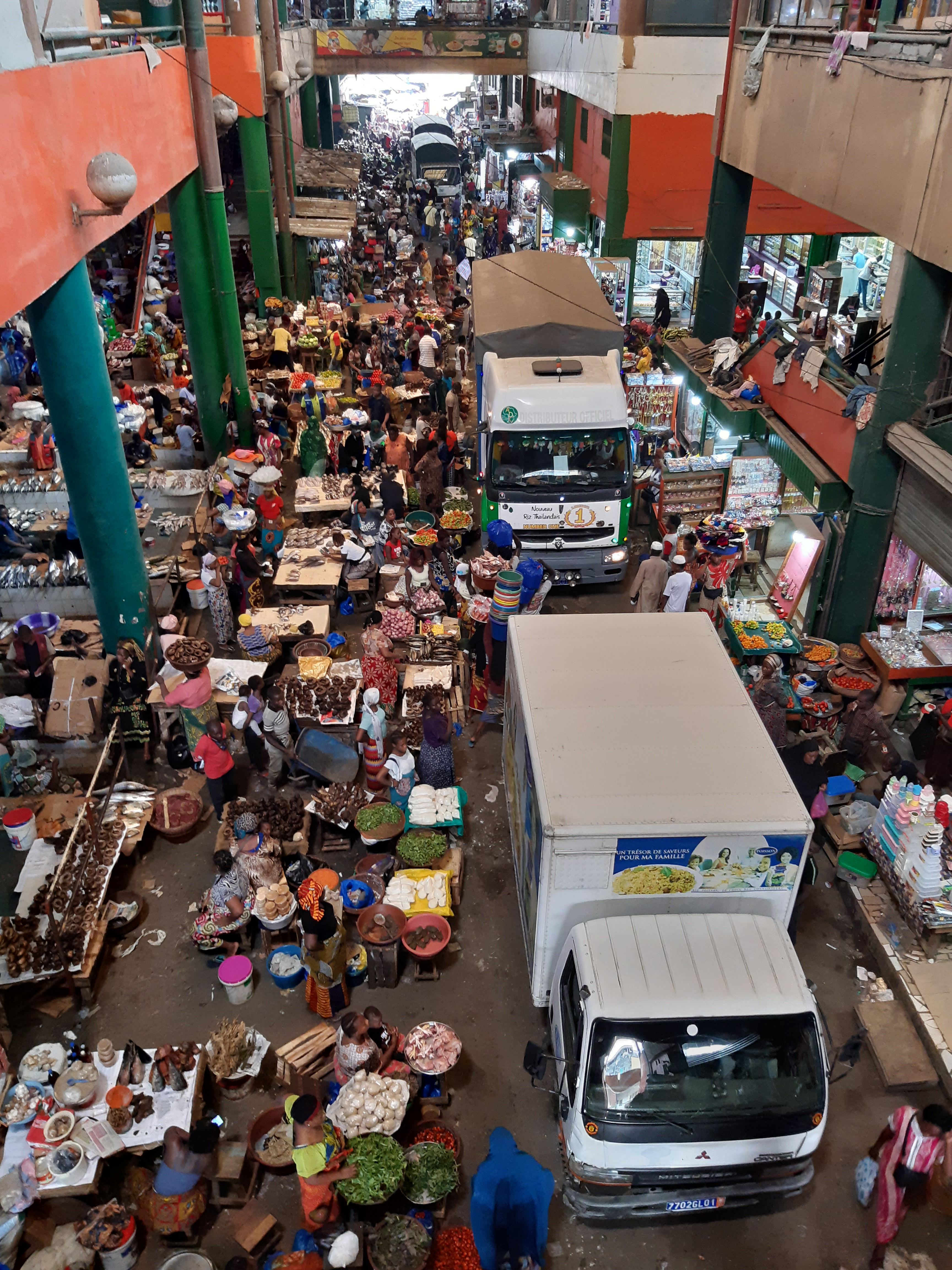 Adjamé market is the biggest market of West Africa. Here is a small part of the vegetables. This is an image with the theme "Africa on the Move or Transport" from: Ivory Coast